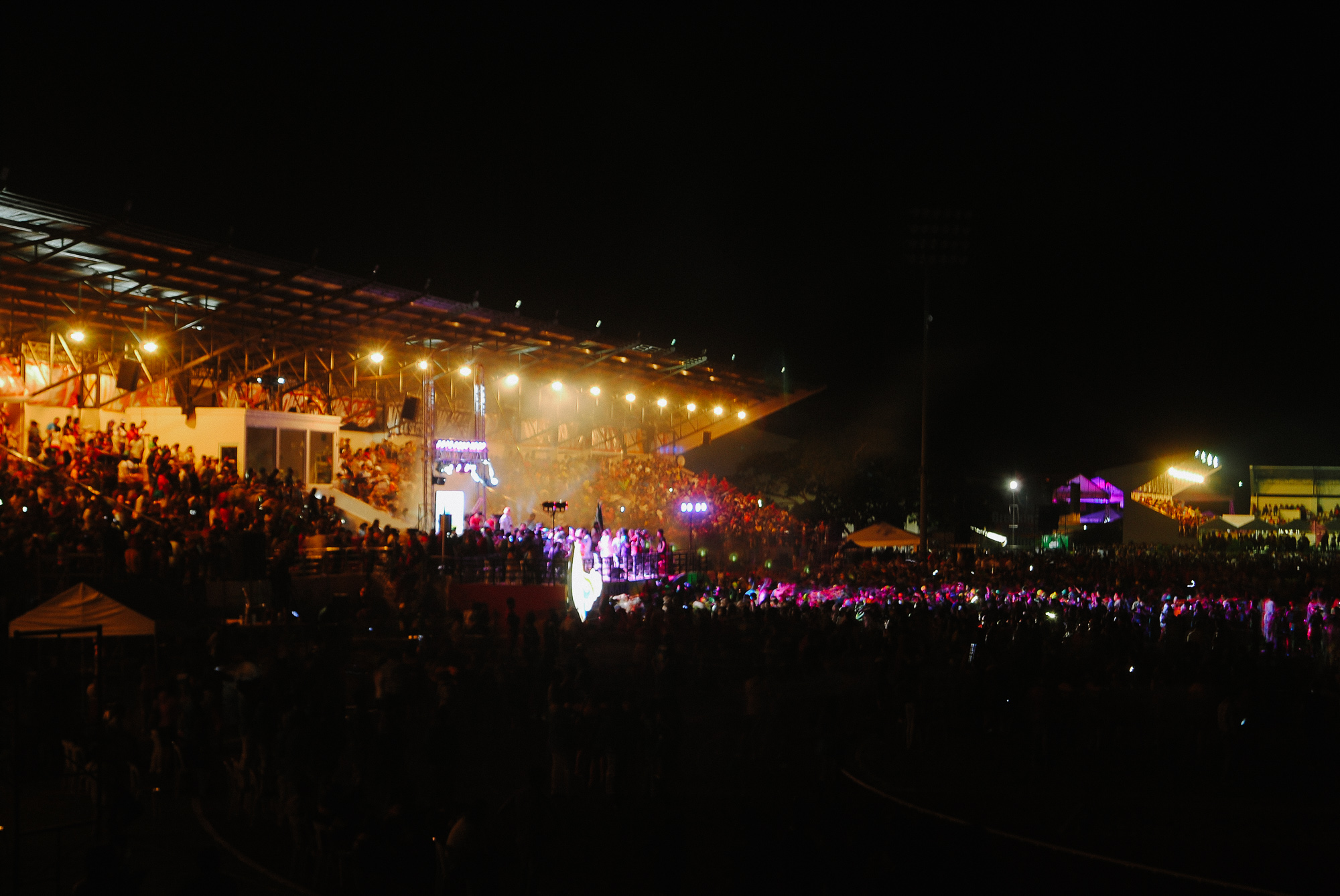 2015 Palaro Pambansa athletes and delegates partied as the games were concluded on 9 May 2015 at the Davao del Norte Sports and Tourism Complex.